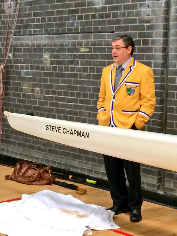 Chapman, in a Heriot Watt University Boat blazer, unveiling a new boat, named in his honour.